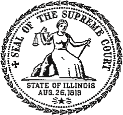 Seal of the Supreme Court of Illinois